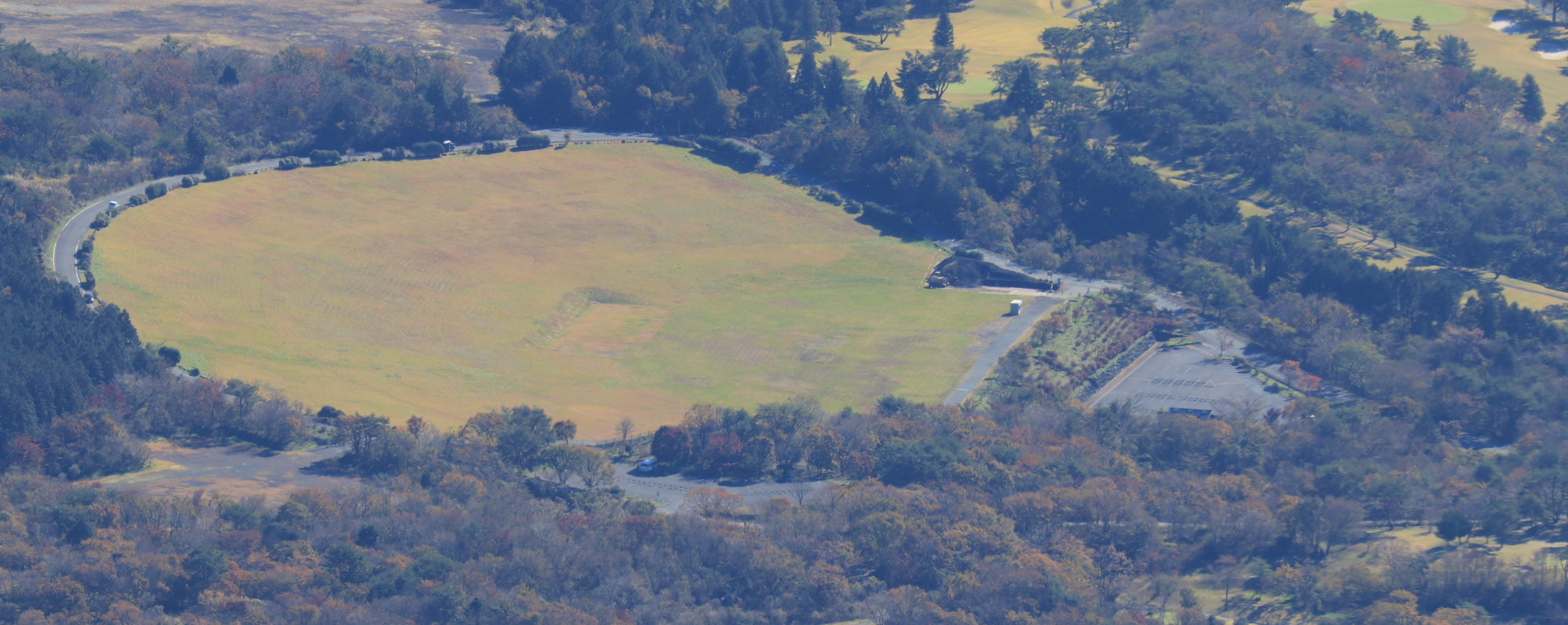 Asagiri Arena seen from Mount Kenashi (Tenshi Mountains) in Fujinomiya, Shizuoka Prefecture, Japan.